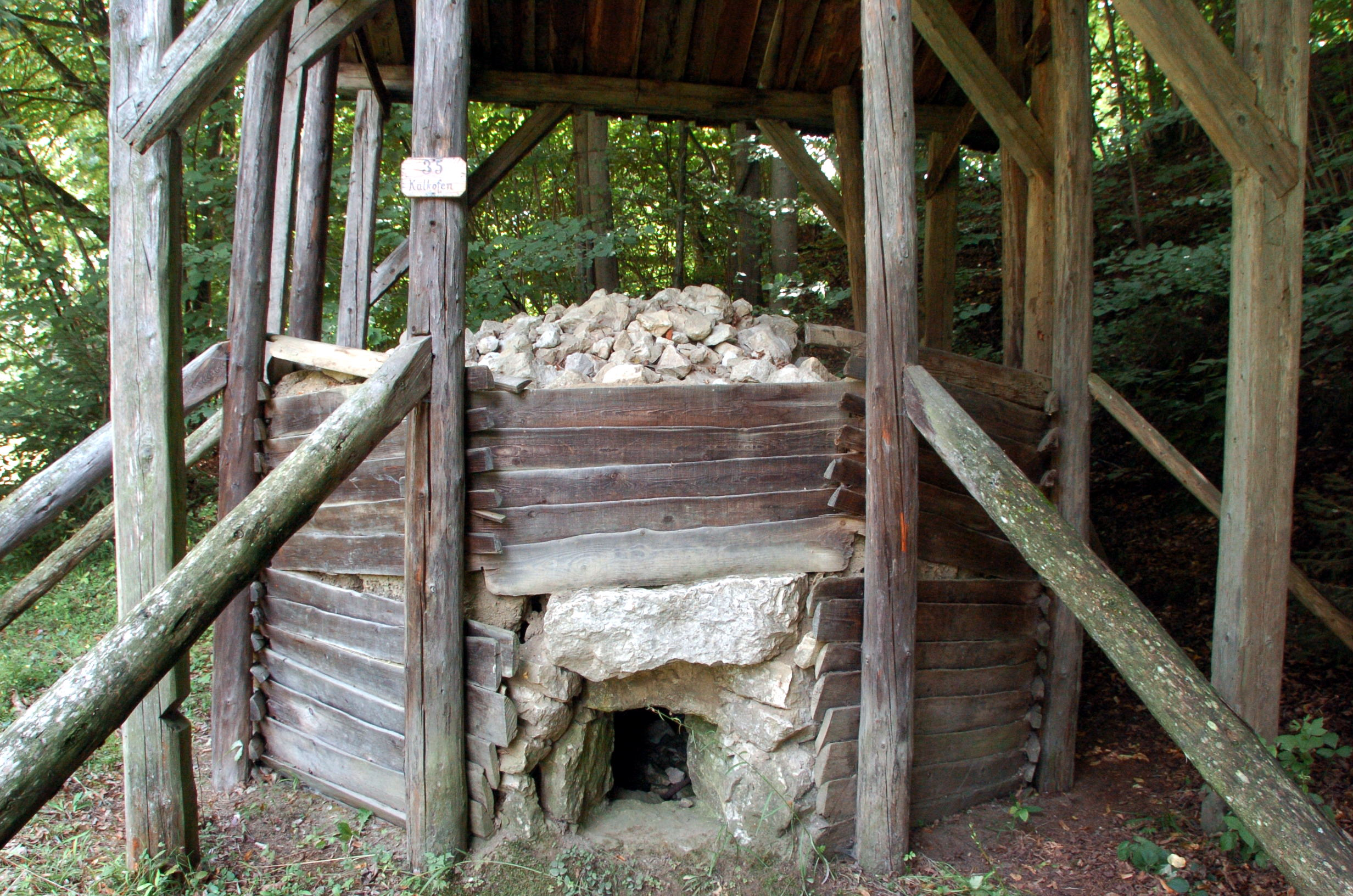 Historic limekiln, exposed at the Freilicht-(open air-) museum in Maria Saal, district Klagenfurt-Land, Carinthia, Austria